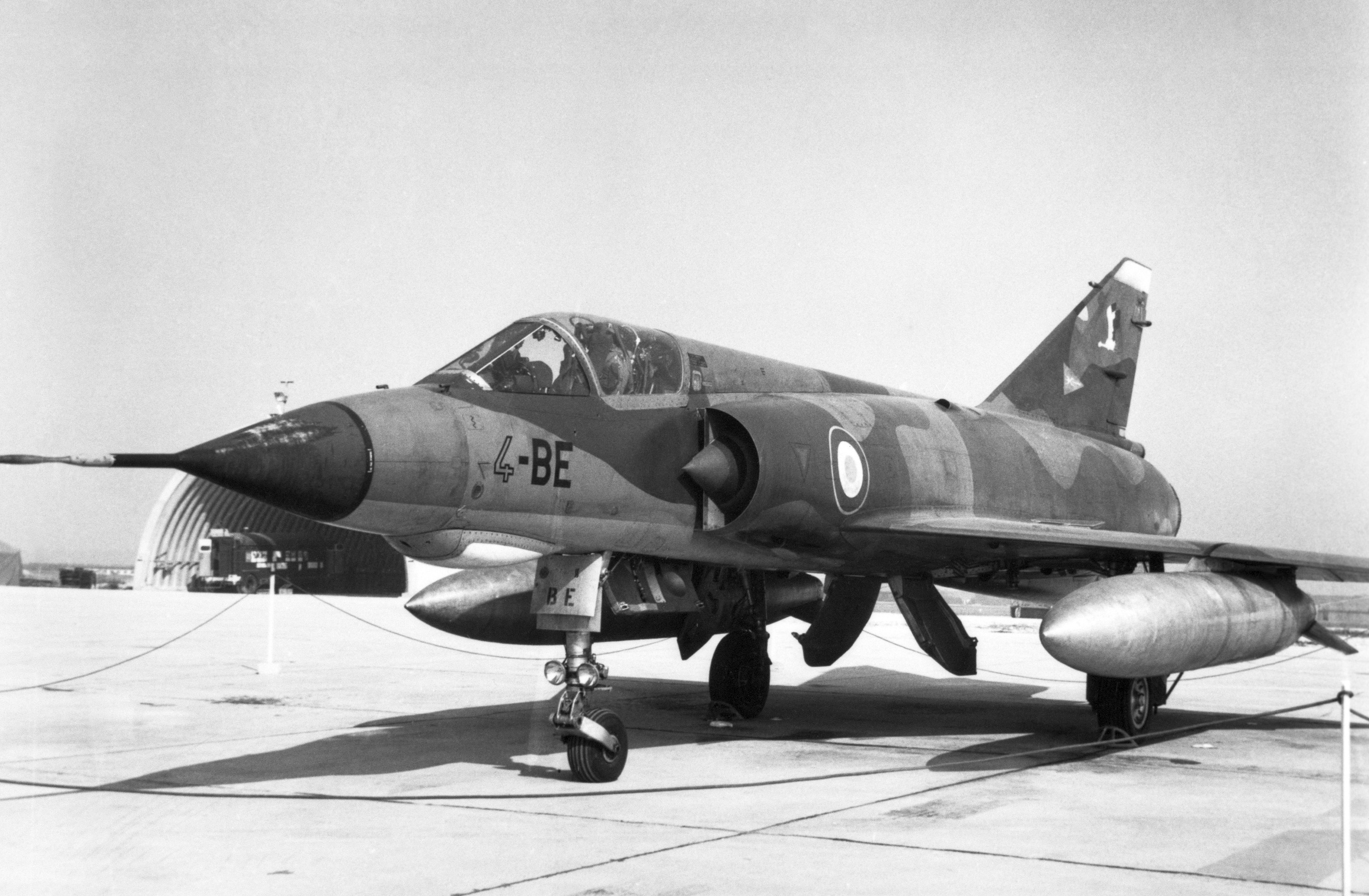 A Armée de l'Air (French air force) Dassault Mirage IIIE aircraft parked on the flight line at a French air base on 31 May 1986. This aircraft was assigned to Escadron de Chasse 2/4 La Fayette, based at Base aérienne 116 Luxeuil-Saint Sauveur, Haute-Saône, Franche-Comté (France).